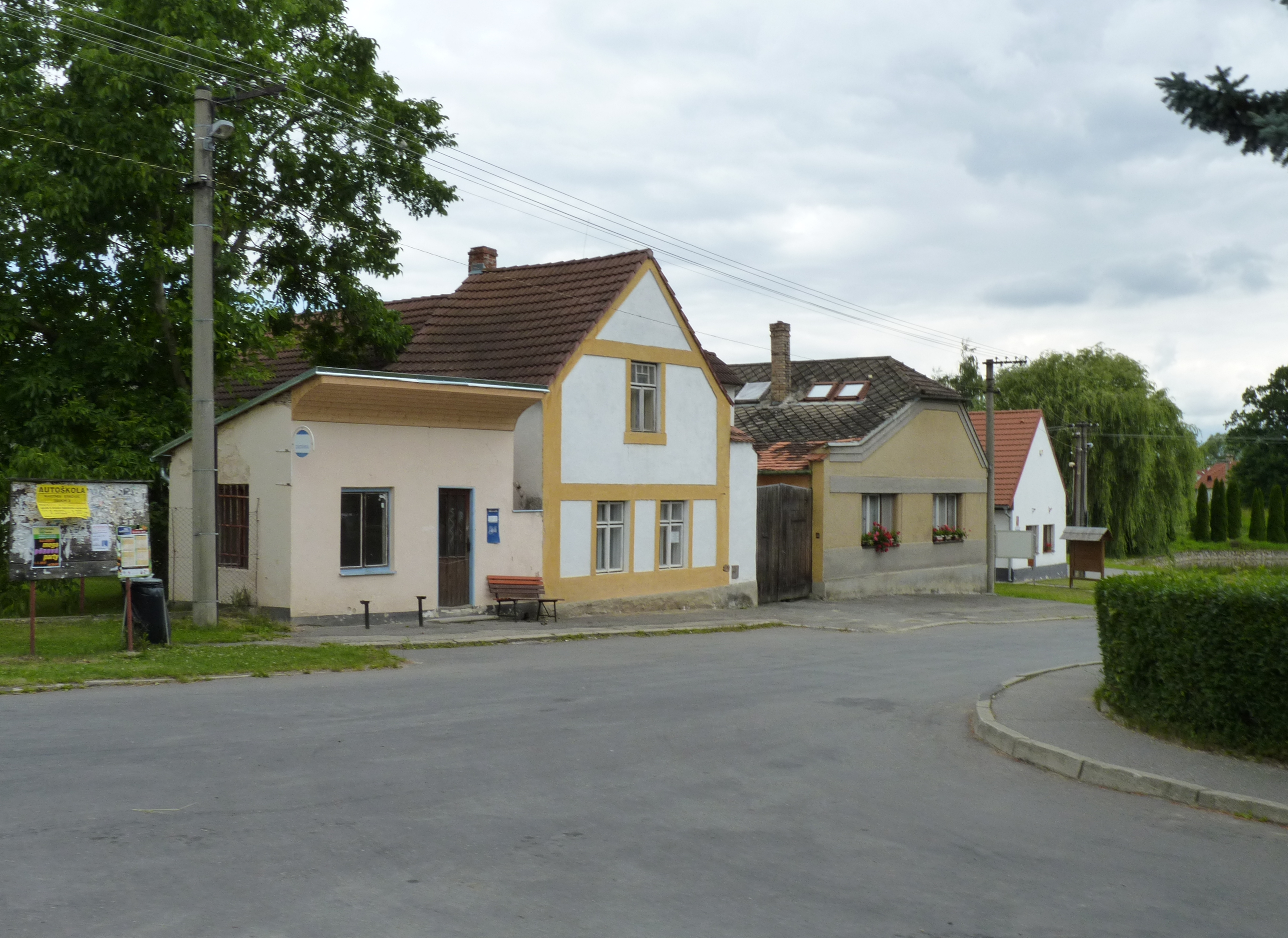 Dunajovice. Jindřichův Hradec District, South Bohemian Region, Czech Republic